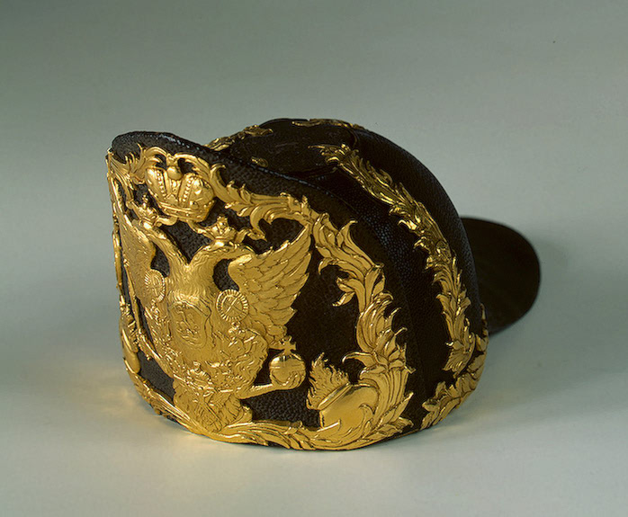 Snuff box, in form of Leib-campagne_hat